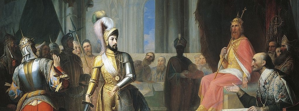 Peter II of Savoy, receiving powers from the Emperor Richard in 1263